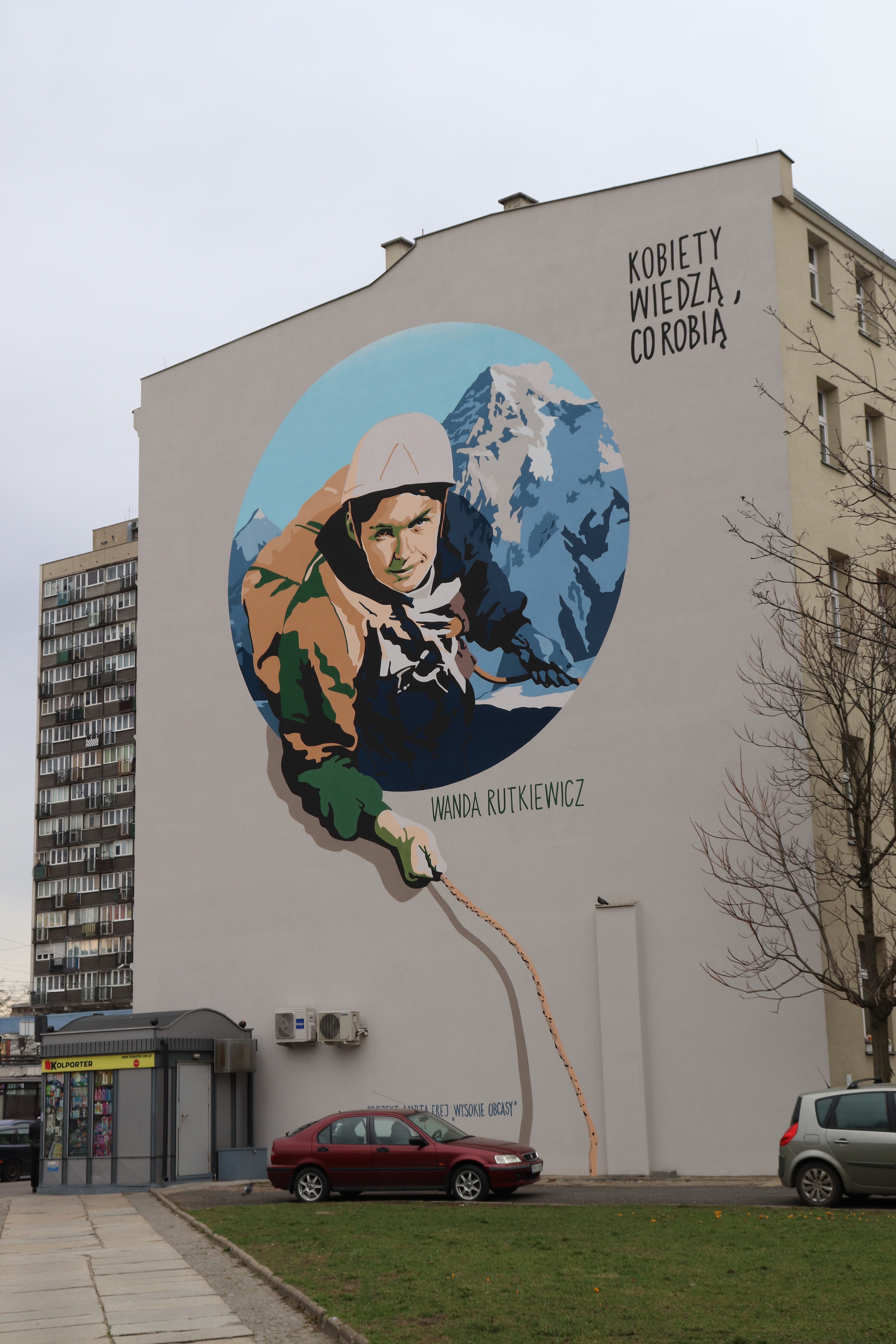 Wrocław - "Women know what they do - Wanda Rutkiewicz" on a house in Legionów sq.